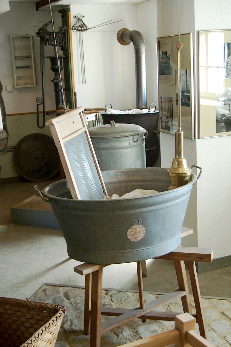 Open air museum Roscheider Hof, Konz, Germany - Washboard